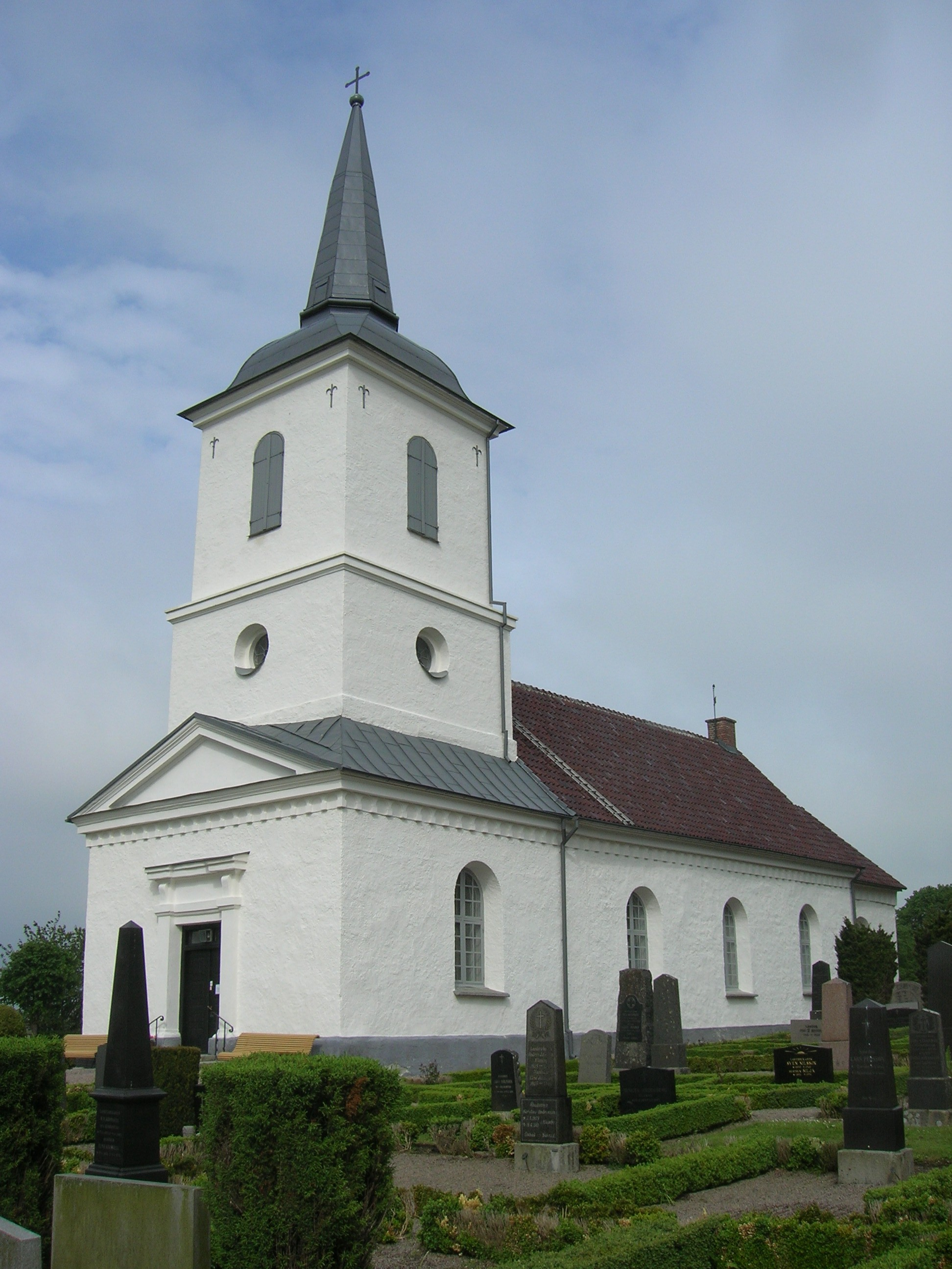 Brandstad Church, Sjöbo Municipality, Scania, Diocese of Lund, Sweden.